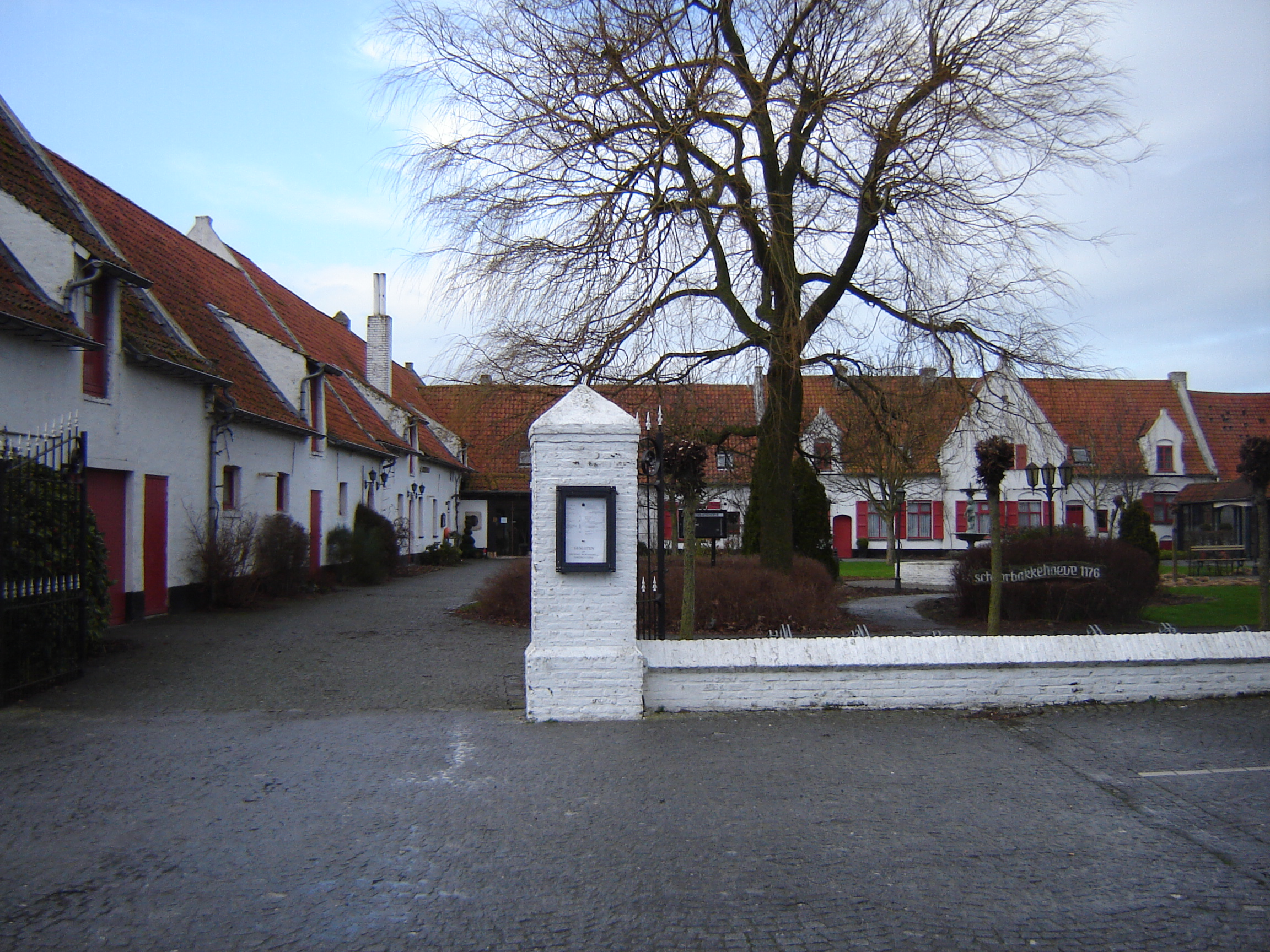 Schoorbakkehoeve. Old abbey farm, nowadays hotel/restaurants/tea room/seminar space. in Schore, Middelkerke, West Flanders, Belgium